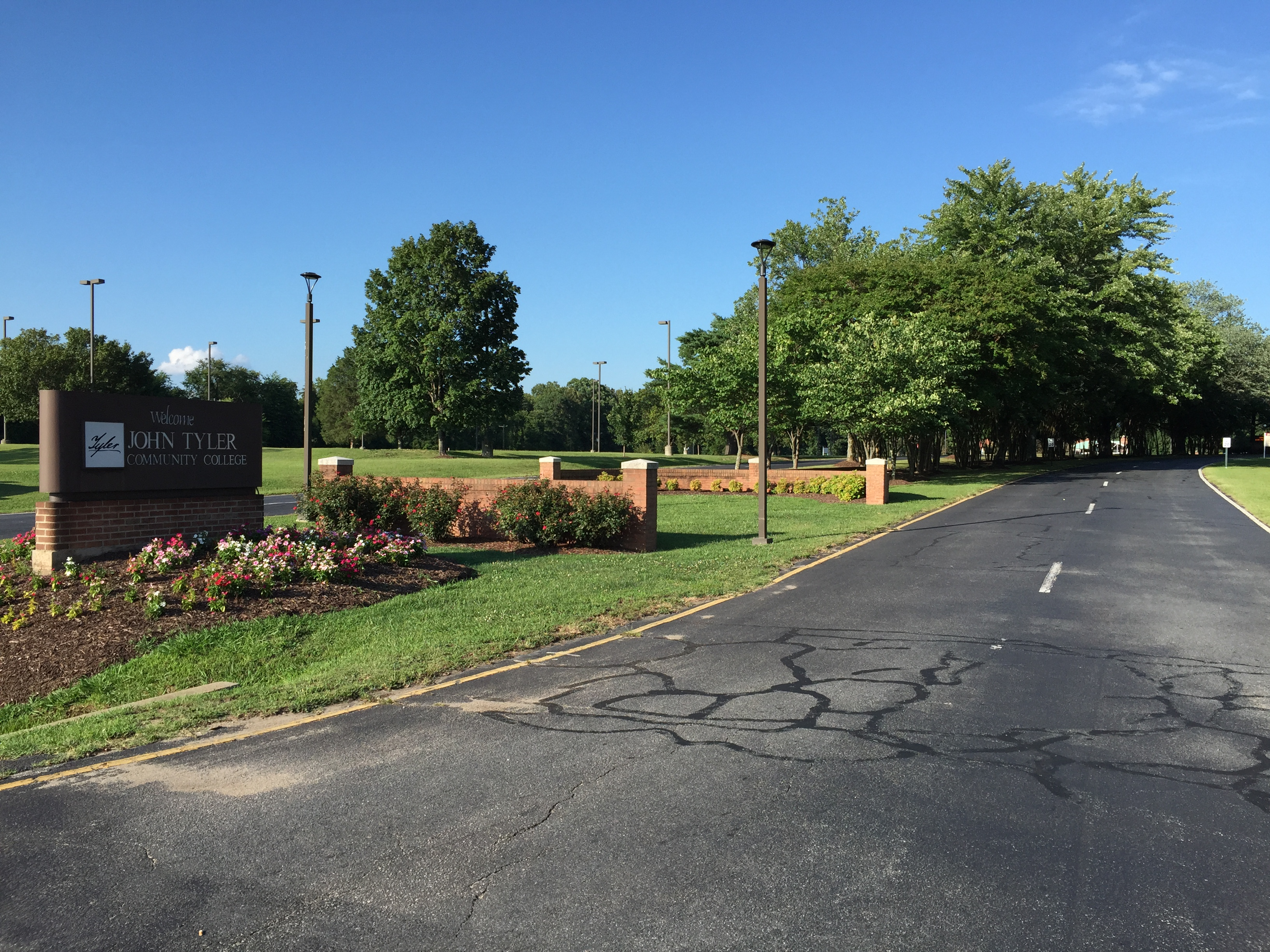 View east along Virginia State Route 366 (John Tyler Drive) at U.S. Route 1 and U.S. Route 301 (Jefferson Davis Highway) at the John Tyler Community College in Chester, Chesterfield County, Virginia